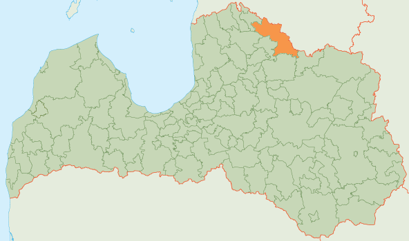 Map of Valka municipality, Latvia